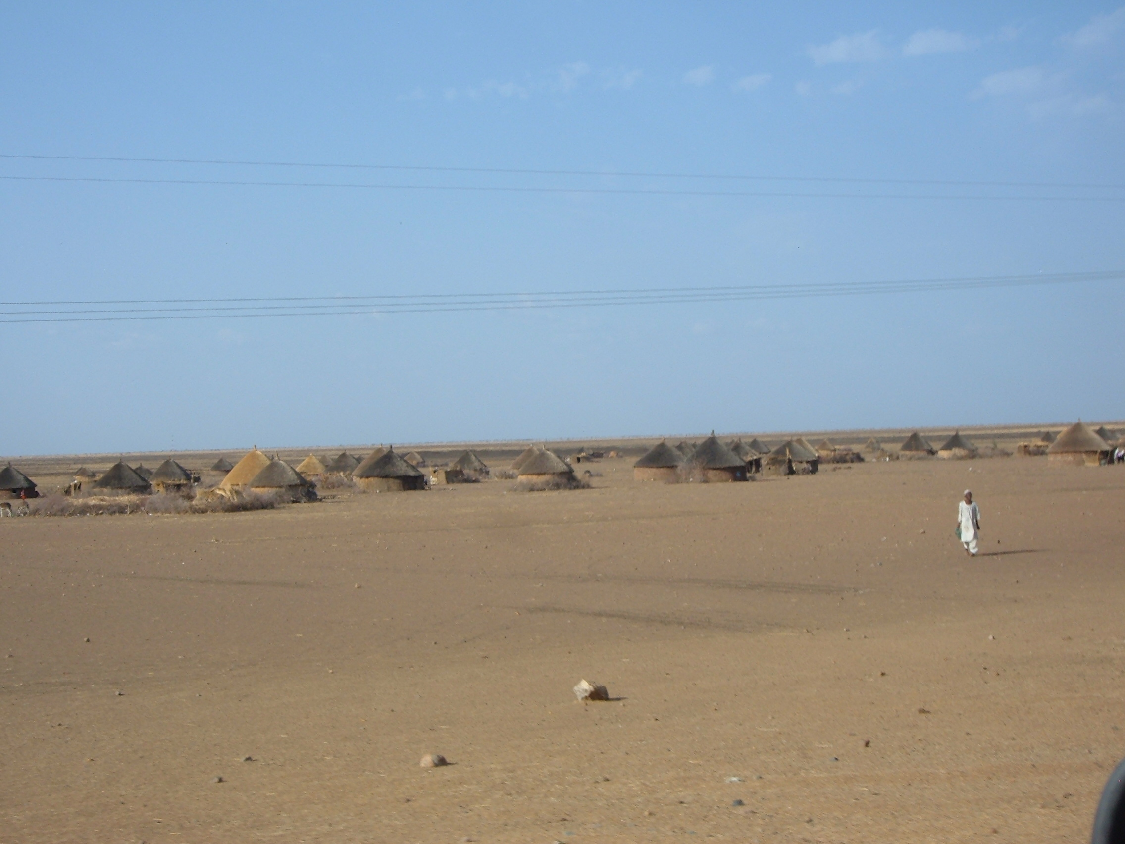 C.I.S.S. humanitarian tour to Sudan. This photo is part of a reportage made in Sudan for Wikinews